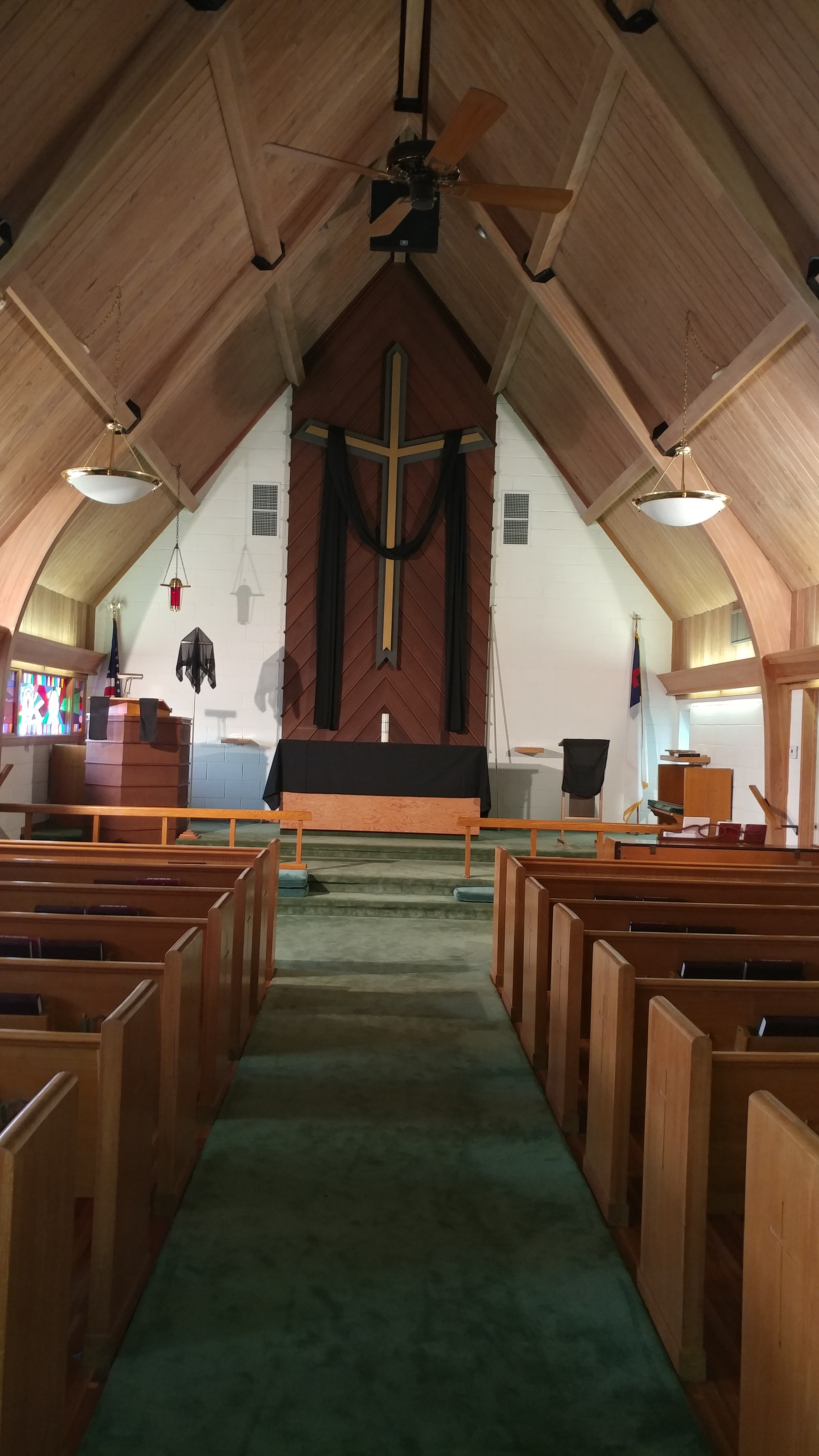 The image depicts the chancel of Grace Lutheran Church adorned with black paraments on Good Friday.